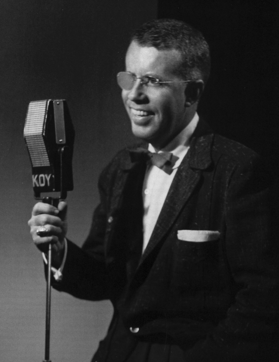 John Richard "Jack" Williams, before becoming Governor of Arizona, in a publicity still for KOY Radio; note that the frosted lens on his eyeglasses is to conceal an empty eye socket.